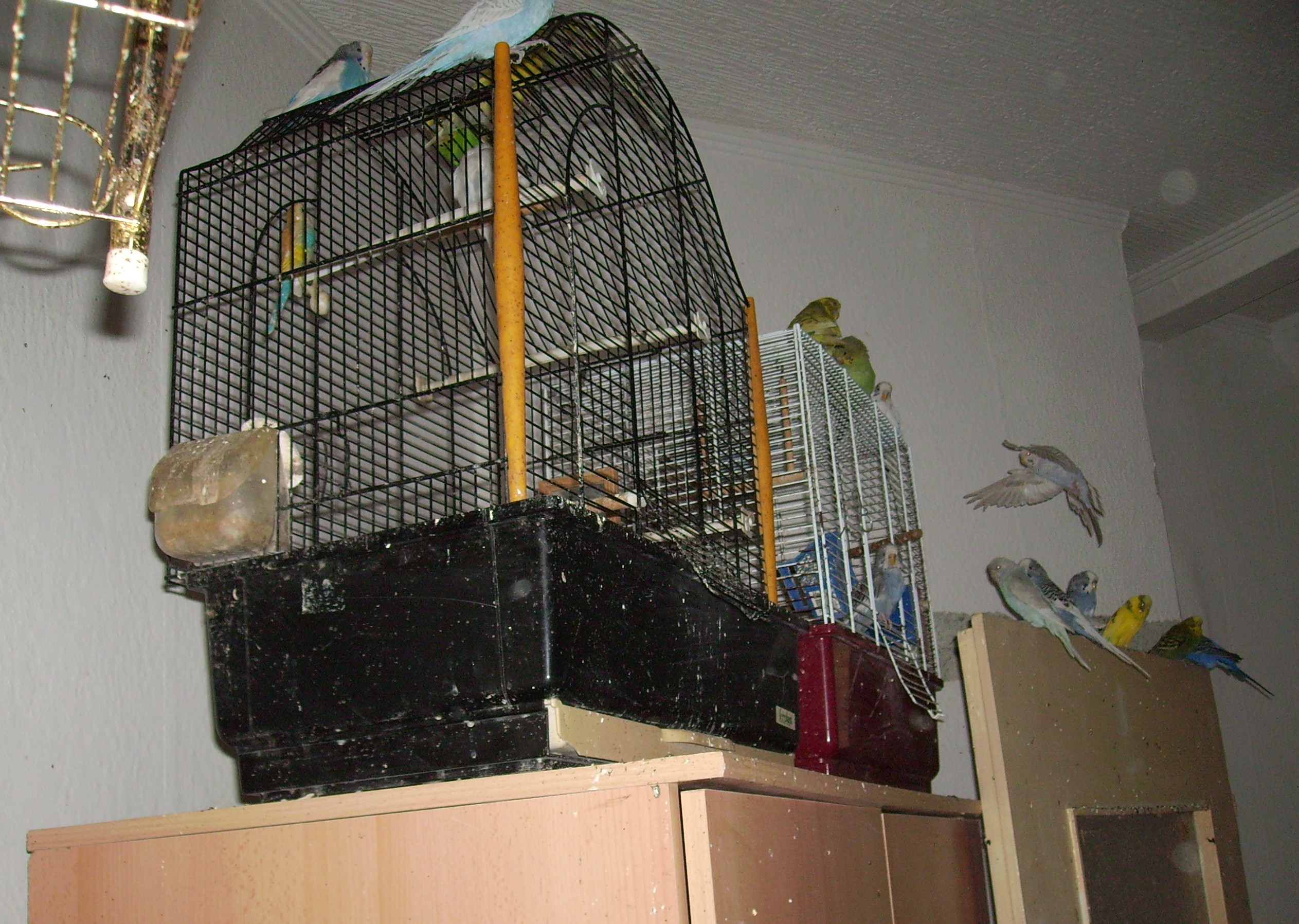 Hoarding of budgerigars